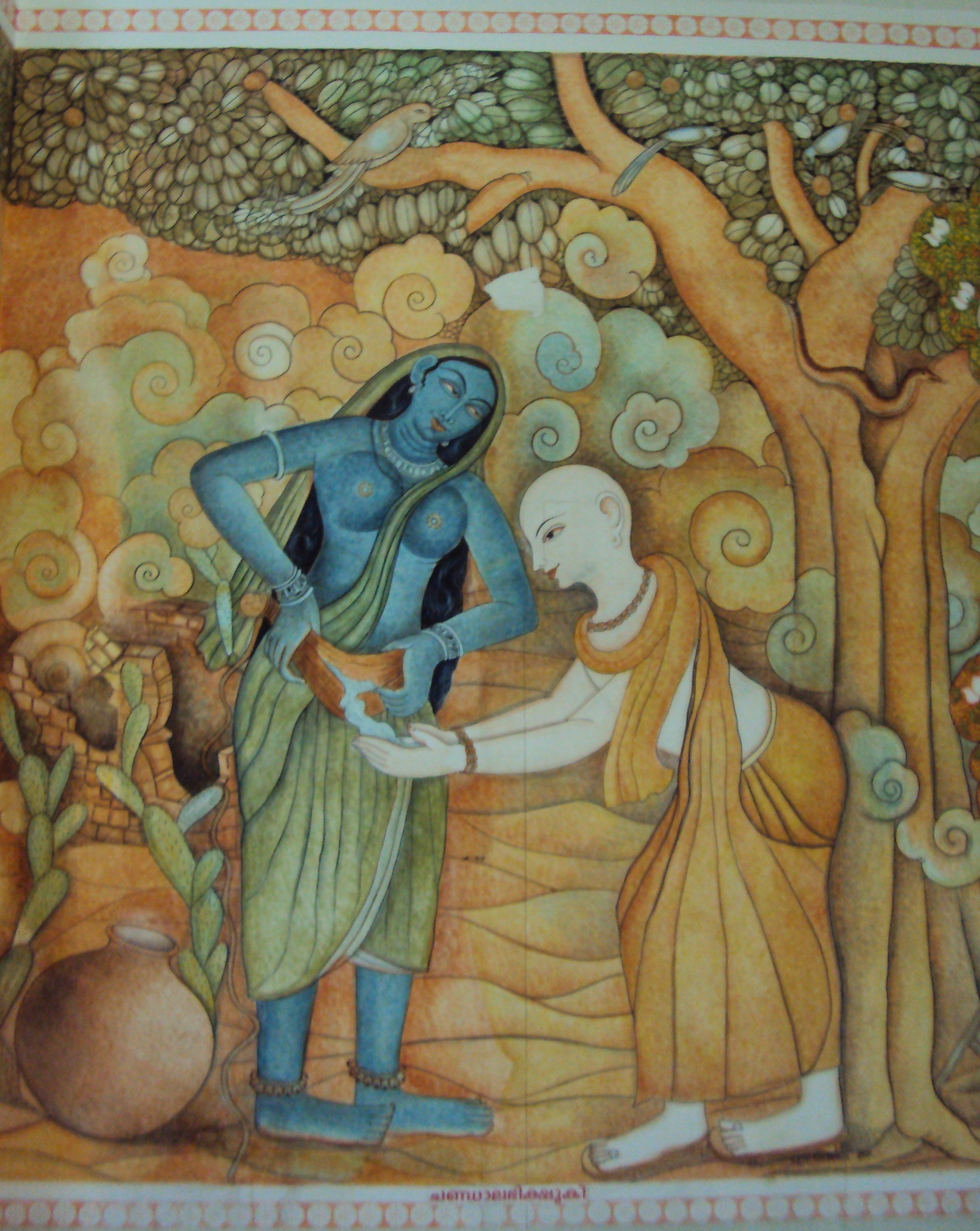 Kumaranasan - Chandalabhikshuki scene at Thonnakkal Asan Smarakam